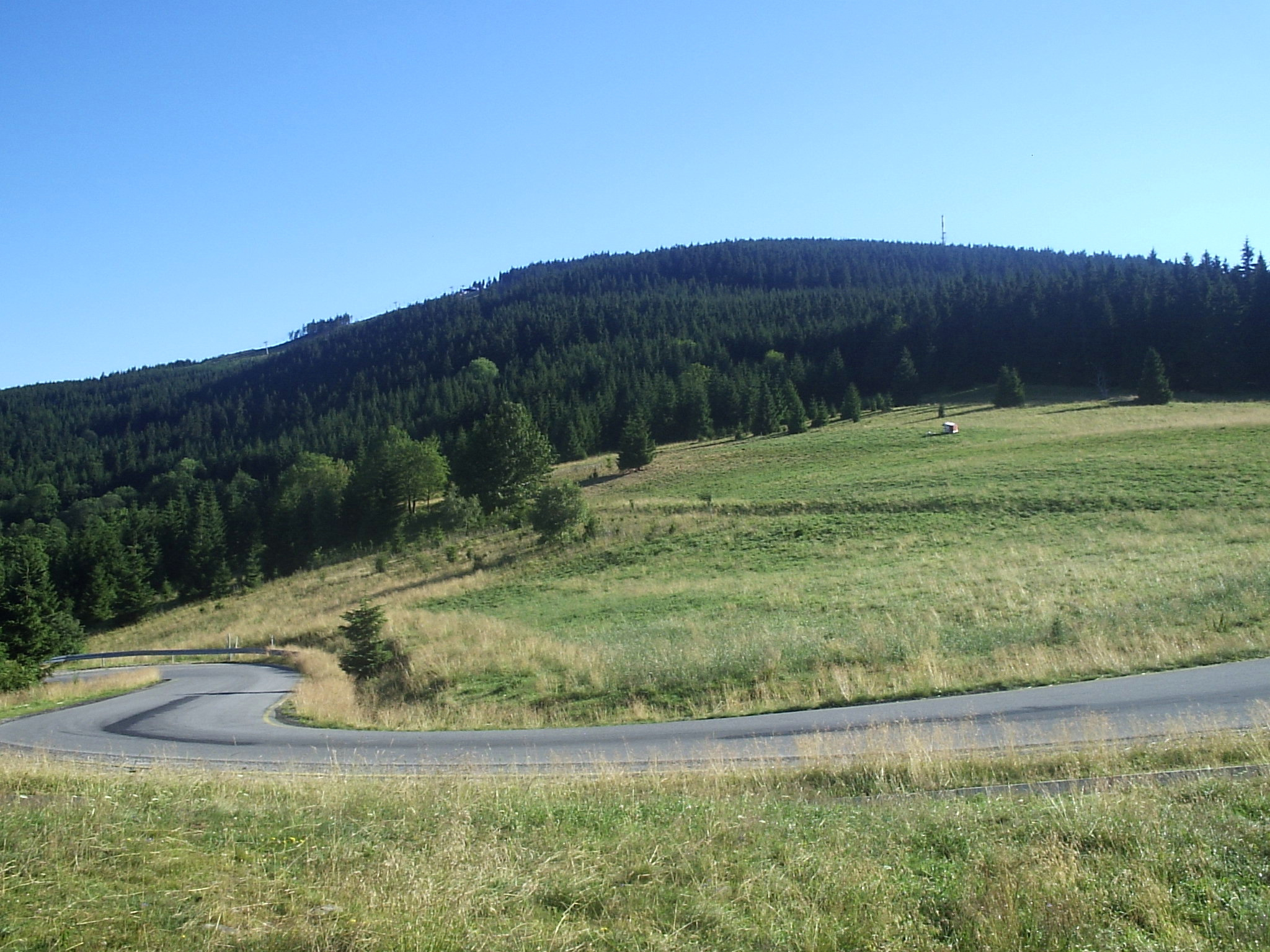 Czarna Góra (Black Mountain) seen from Puchaczówka Pass , Sudety, Poland